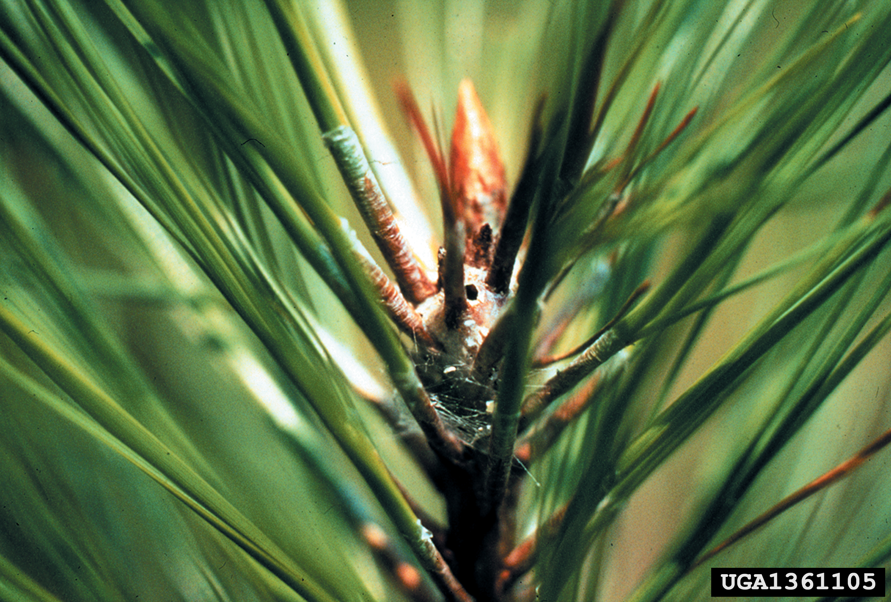 Rhyacionia_frustrana_larval_web